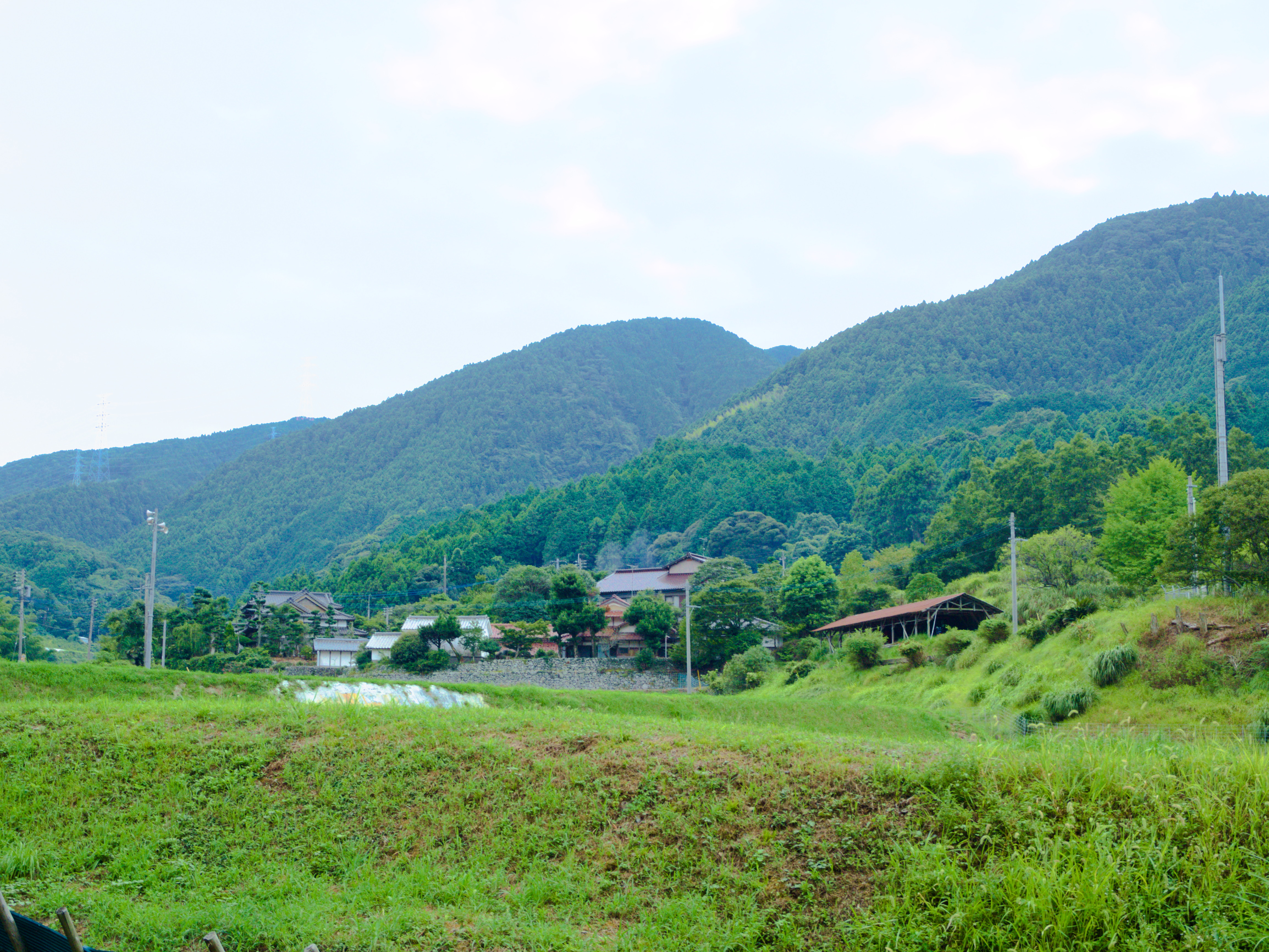 Nishiyama mountain on the border of Koga and Miyawaka Cities, Fukuoka Prefecture, Japan